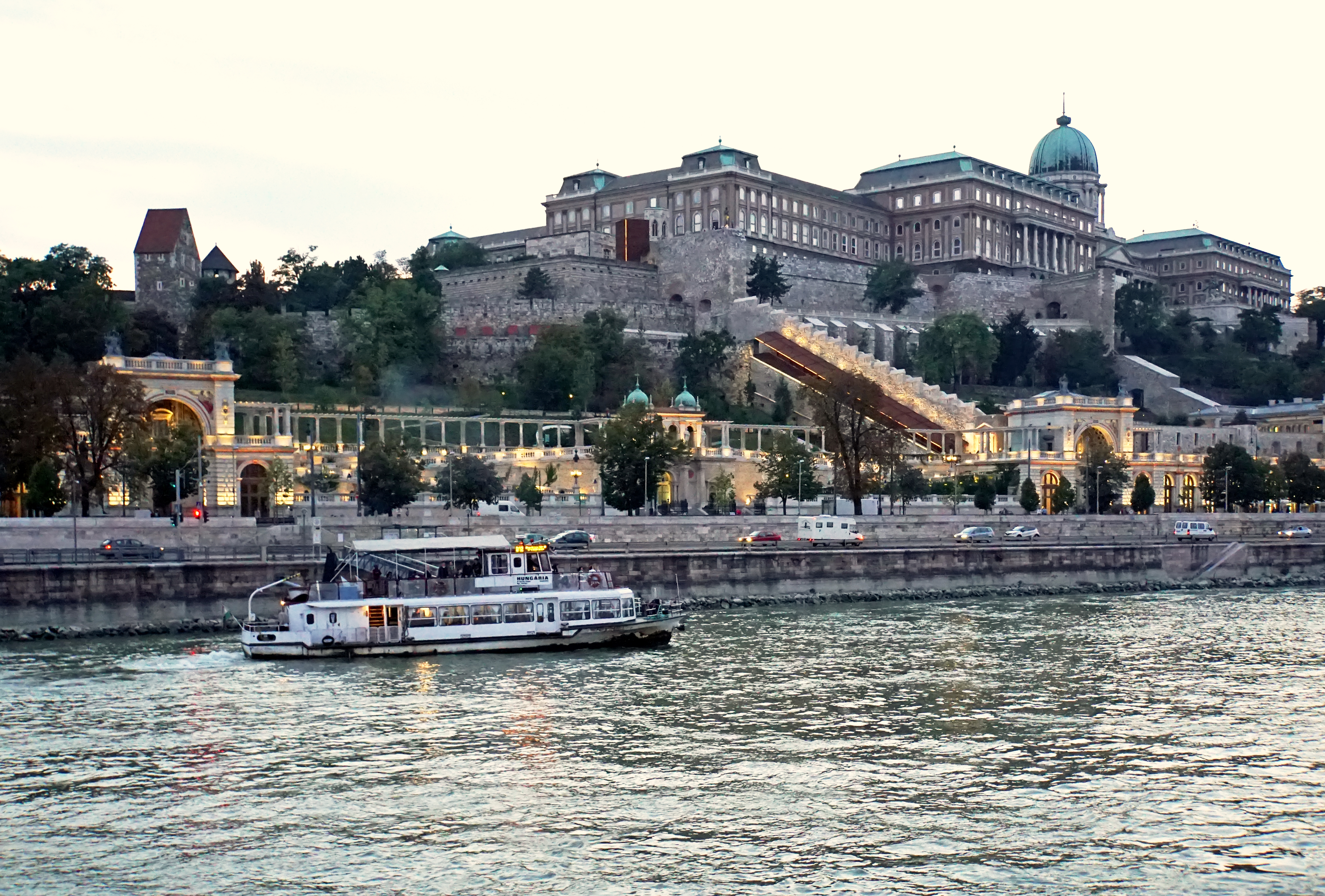 Starting to get darker and the lights were coming on.... Buda Castle is the historical castle and palace complex of the Hungarian kings, and was first completed in 1265. It is built on Castle Hill, bounded on the north by what is known as the Castle District.